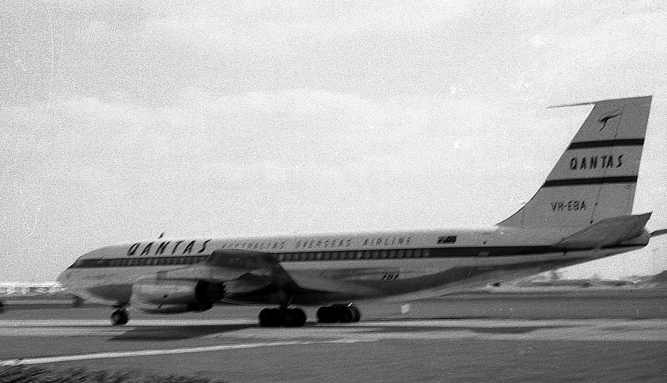 Delivered to QANTAS 1959 Operated QANTAS's first jet flights from Sydney to San Francisco, London, Vancouver , Hong Kong, Tokyo, Singapore and Auckland. To Pacific Western 1967 as CF-PWV To Tiger Air 1978 as N138TW. Later N220AM and N138MJ To Saudi Air Force 1987 as HZ 123 Stored at Southend, England 1999 Restored and to QANTAS Foundation 2006 as VH-XBA To QANTAS Museum, Longreach, 2007